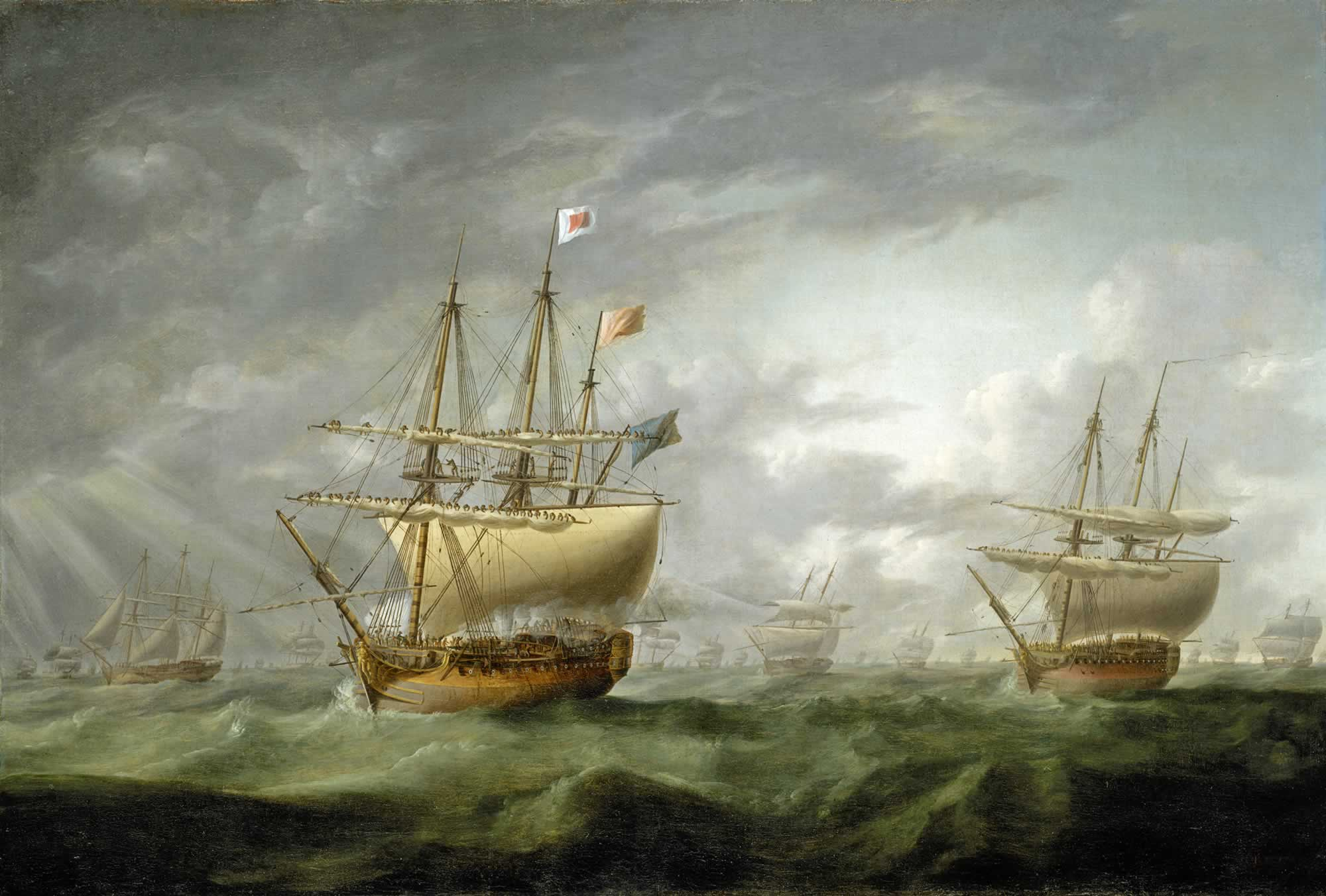 Loss of HMS Ramillies, September 1782: before the storm breaks